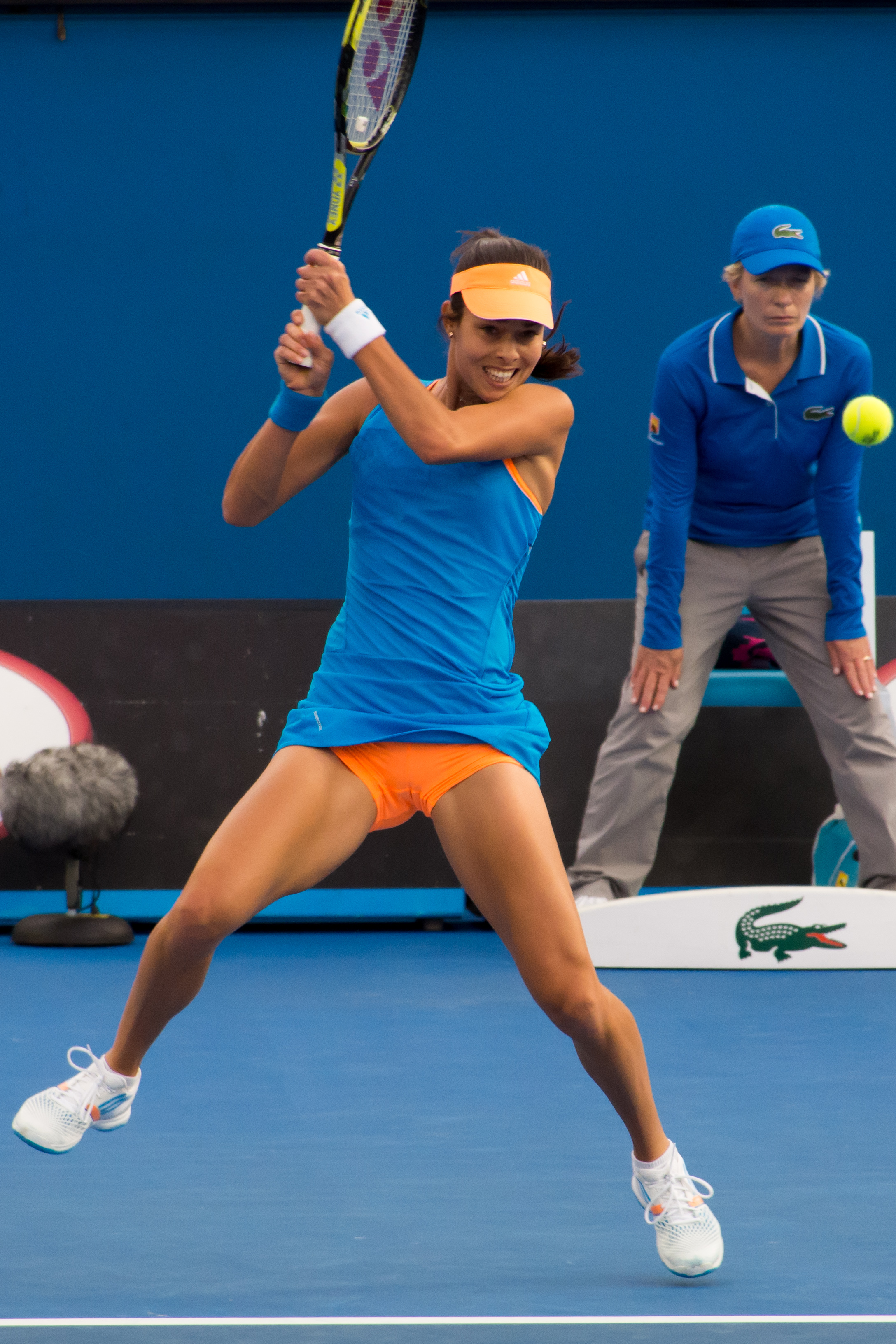 Ana Ivanovic (SRB) [14] during her 2nd round straight-sets win to Annika Beck (GER) at the 2014 Australian Open on Show Court 2.